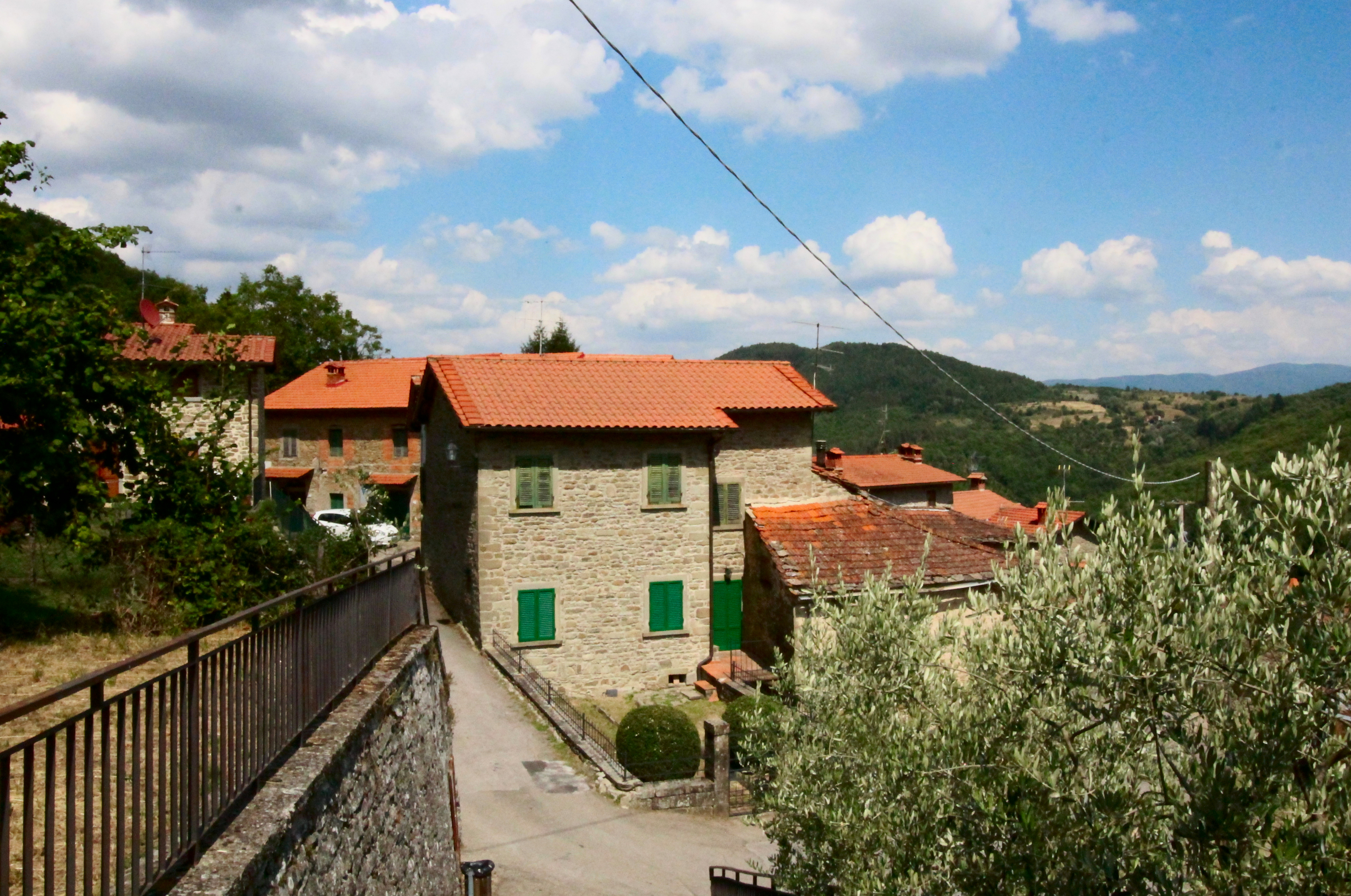 Badia Tega (Badia a Tega), hamlet of Ortignano Raggiolo, Casentino, Province of Arezzo, Tuscany, Italy